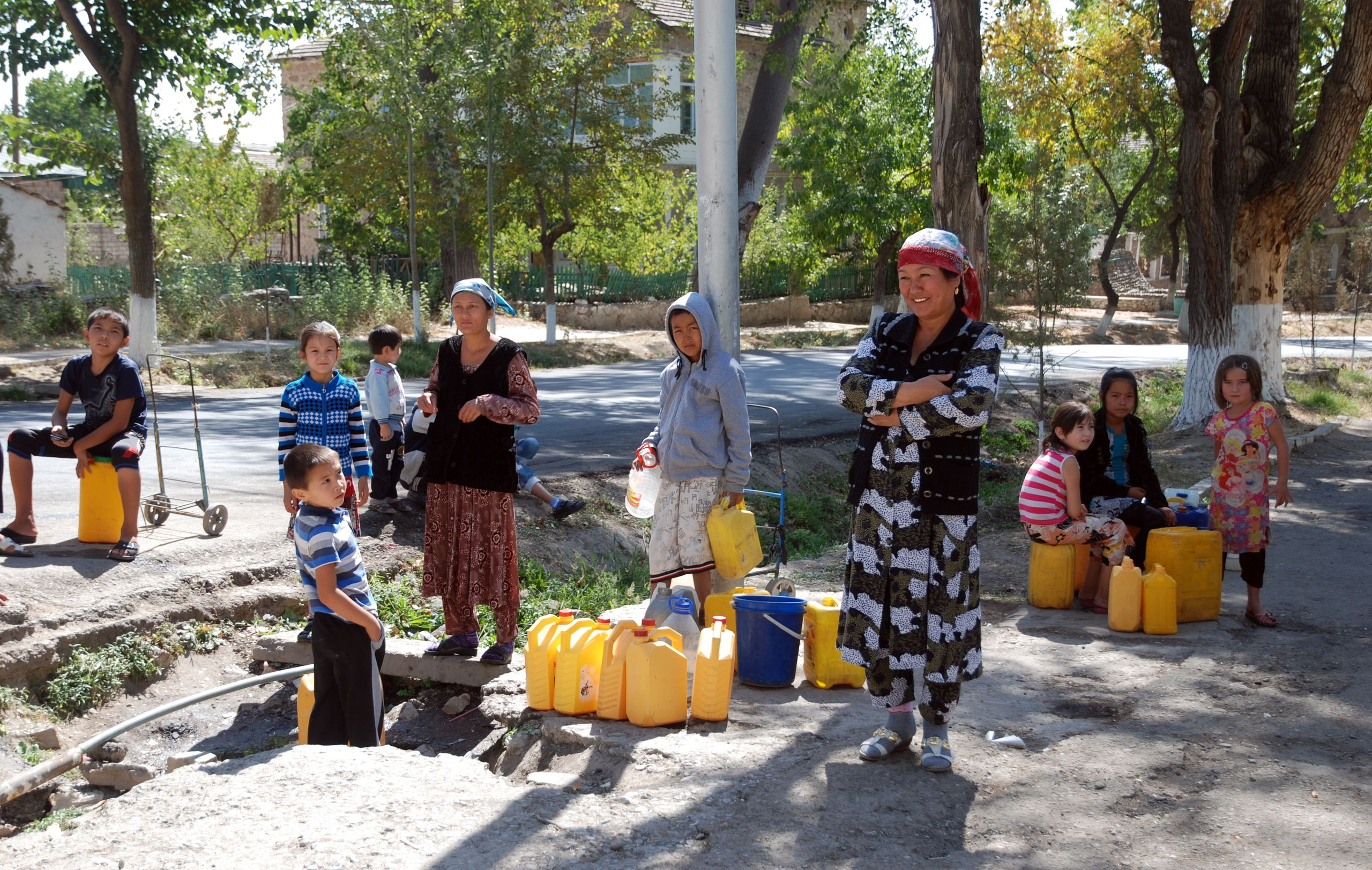 Taboshar, getting drinking water from the main road, Sughd province, Tajikistan